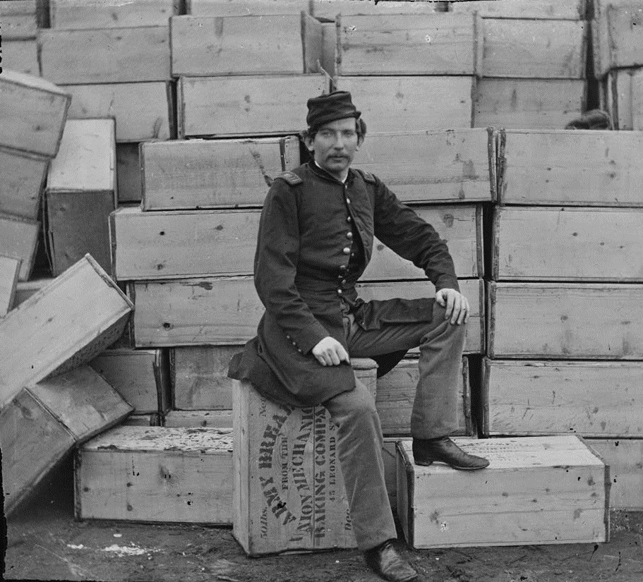 Aquia Creek, Virginia. Captain J.W. Forsyth, the Provost Marshall